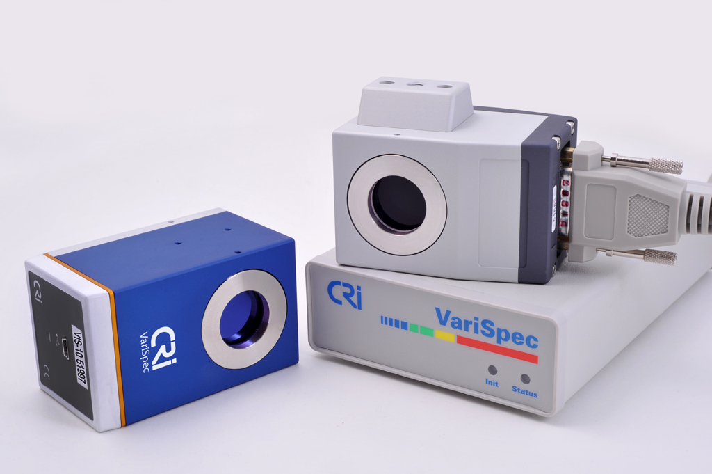 LCTFs circa 2010 with integrated drive circuitry (left) and with separate electronics controller box (right).